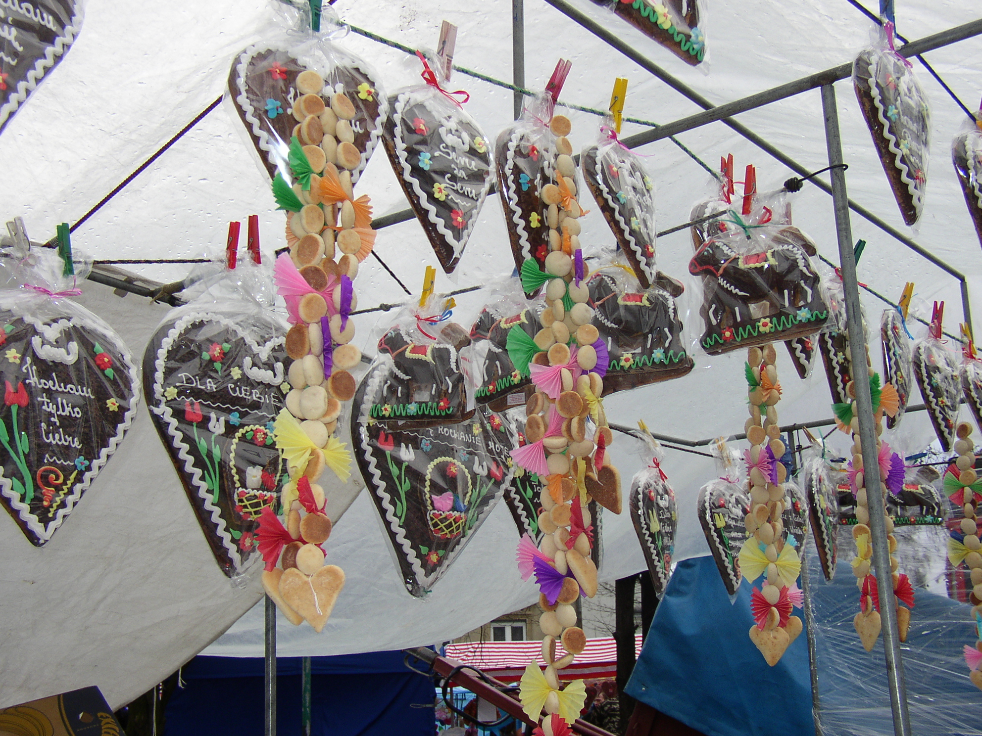 Kraków - Emaus 2008 - stand - traditional gingerbread